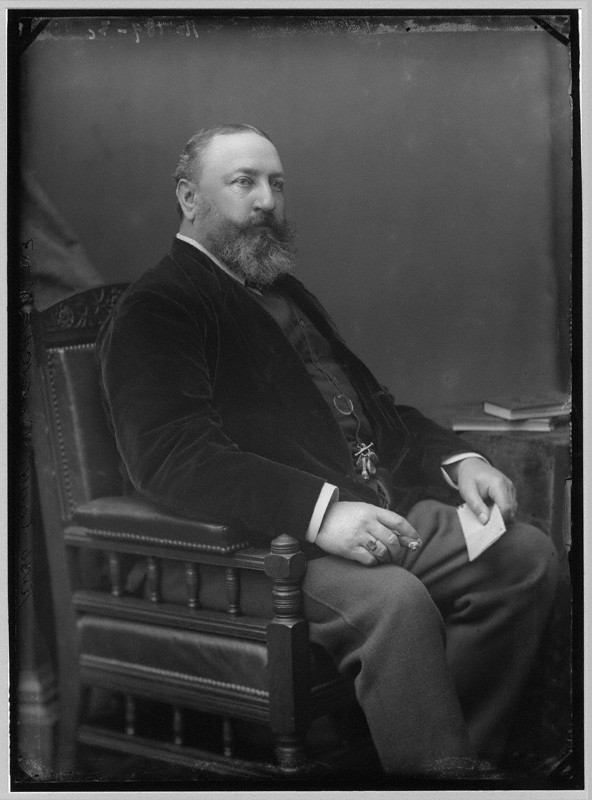 Price Victor of Hohenlohe-Langenburg, Count Gleichen, British Admiral and sculptor (11 December 1833 – 31 December 1891).